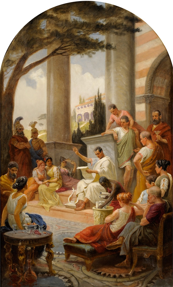 Horace. Oil on canvas, 134 x 80 cm. Back titled and inscribed.